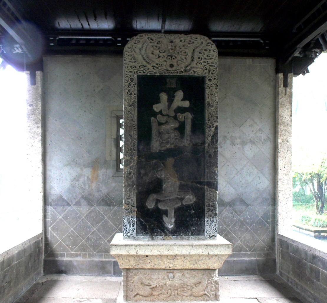 Lanting tablet written by Emperor Kangxi, broken by Red Guards during the Cultural Revolution